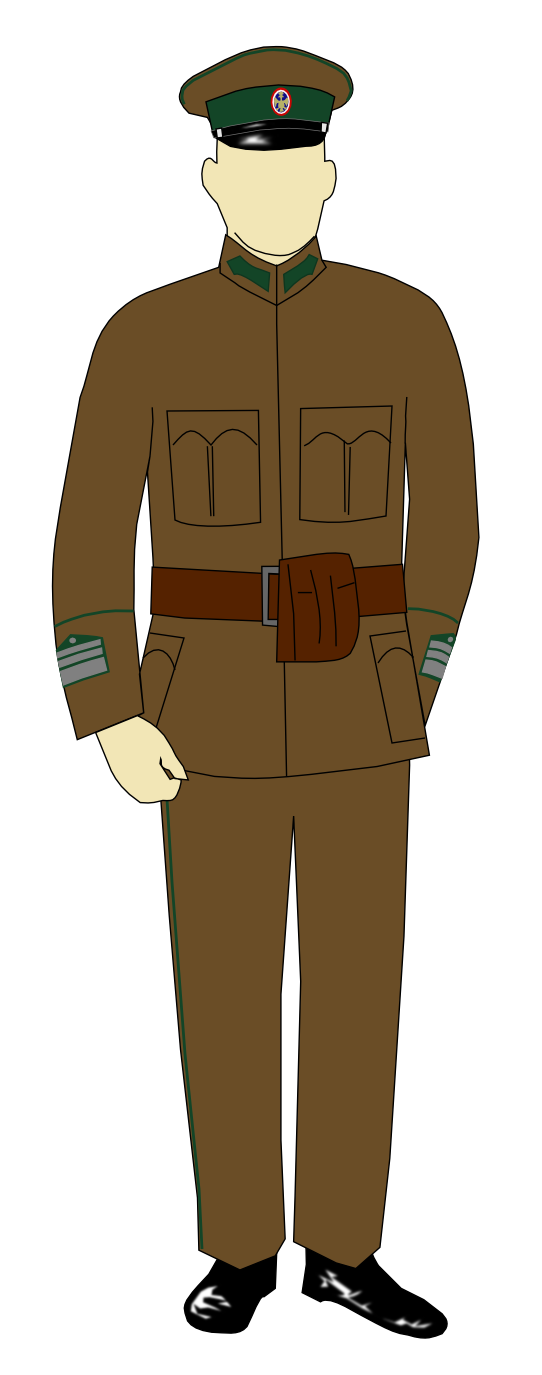 Financial Controler- Promoted II. Class Surveyor . Based od descriptions from regulations: Uradni list pokrajinske uprave za Slovenijo (14. Jan. 1922). Pravilnik za izvrševanje uredbe o organizaciji finančne kontrole. Uradni list pokrajinske uprave za Slovenijo (02.08.1923). Izspremembe in dopolnitve v členu 8. Pravilnika za izvrševanje zakona o organizaciji finančne kontrole.